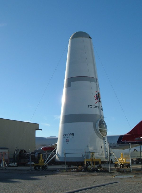 The Roton Atmospheric Test Vehicle, as seen at Mojave Airport on July 9, 2005. Image created and first uploaded on en.wiki by User:Willy Logan.